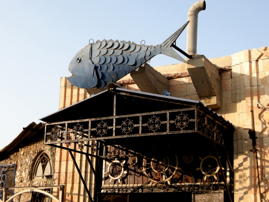 Restaurant "Margaret Tayar" Tel Aviv Jaffa, 8 Retsif ha-Aliya ha-Shniya Street.